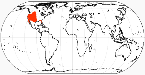 Epicyon range based upon fossil finds